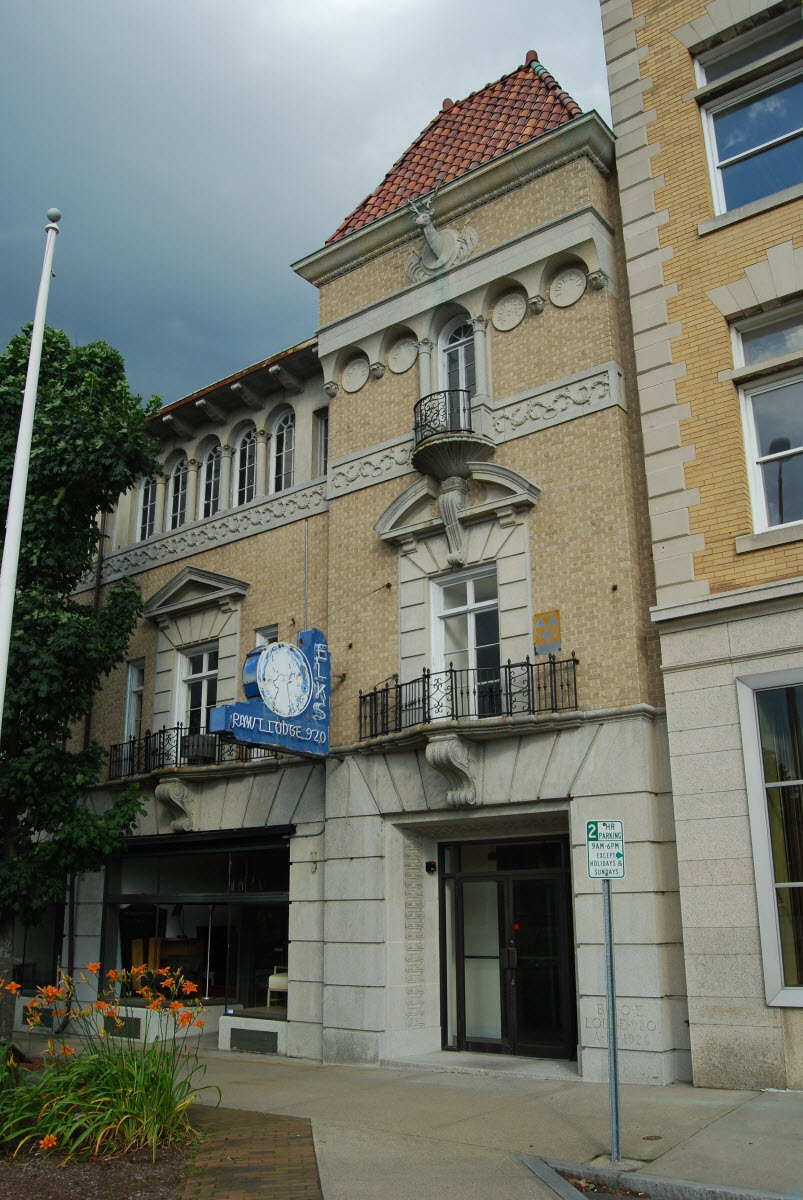 Pawtucket Elks Lodge, Pawtucket, Rhode Island